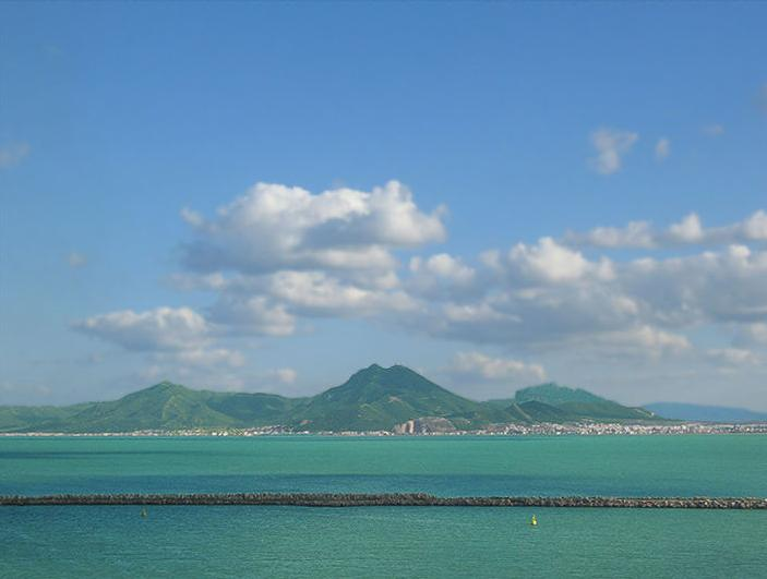 Tunis Gulf - Tunisia, 2004